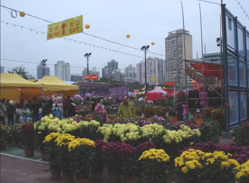 Tung Tau Industrial Area Playground, Yuen Long: Junction of Wang Yip Street East and Keung Yip Street , Yuen Long